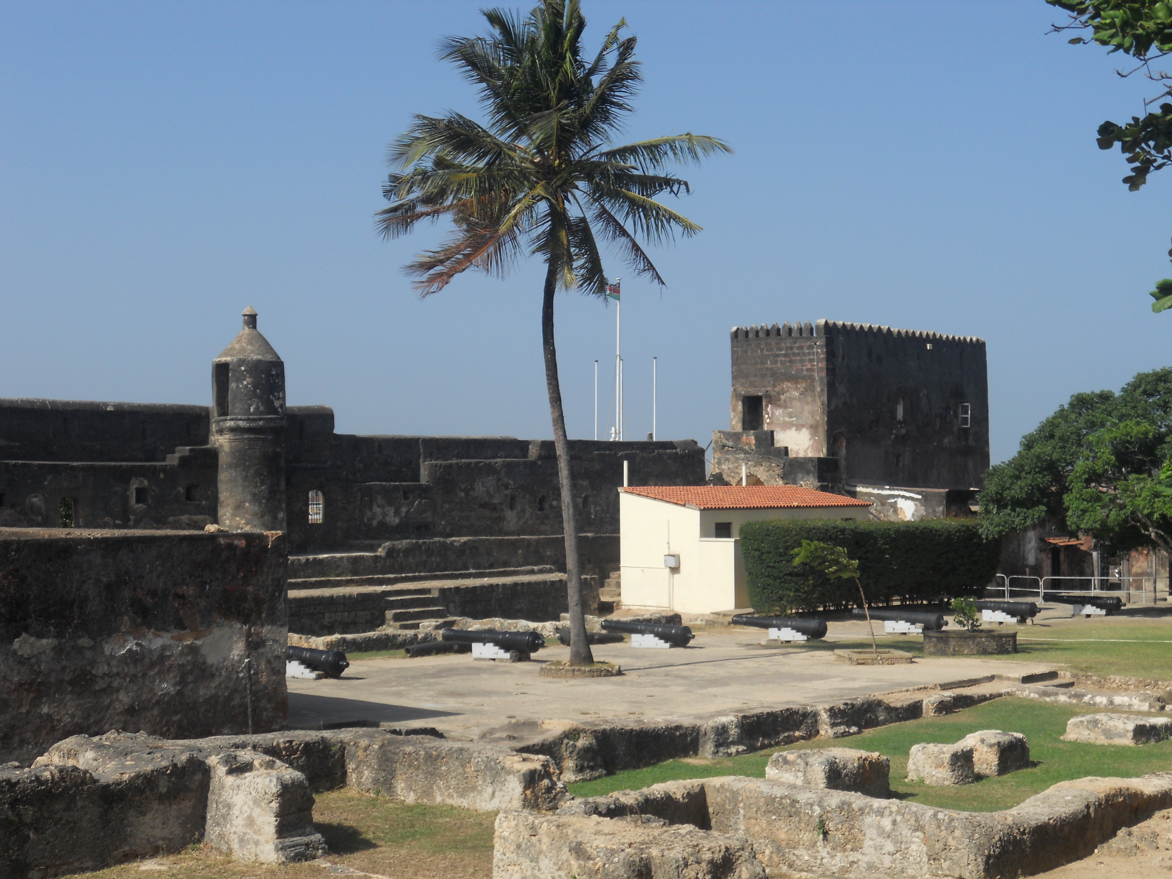 Fort Jesus, Mombasa